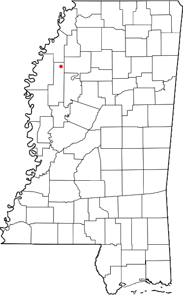 Mississippi State Penitentiary (Parchman, Mississippi) main entrance location map